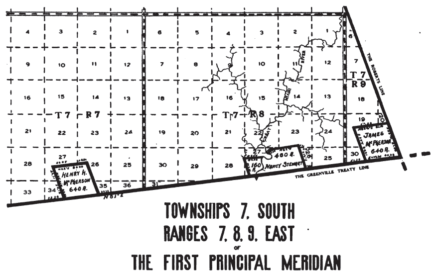 Map of federal land grants to Indian individuals in northwest Ohio known as the Indian Land Grants